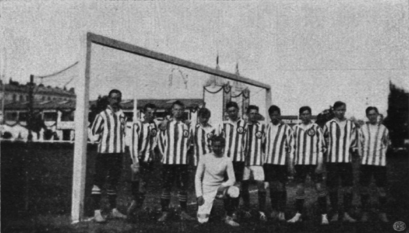 Polish associate football team Polonia Warszawa in 1912.